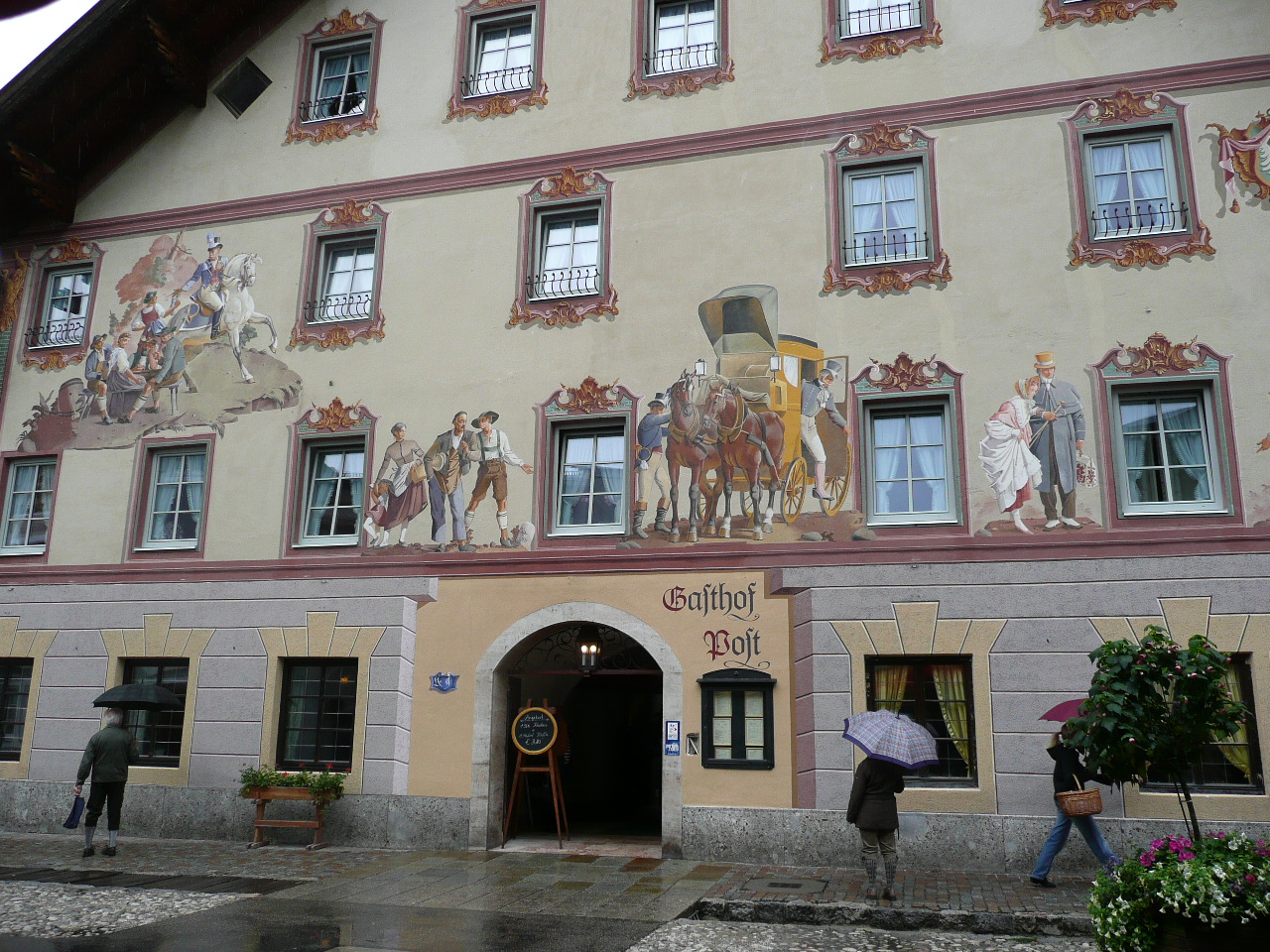 Decorated paintings at "Gasthof Post" in Mittenwald, Upper Bavaria